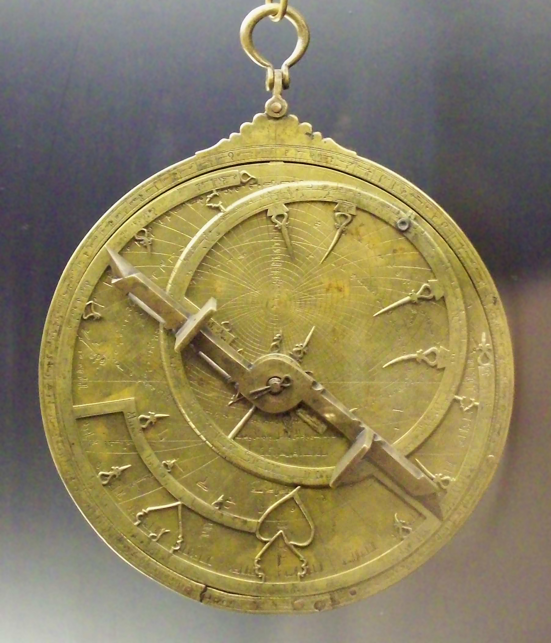 Planispheric astrolabe from Islamic Iberia.